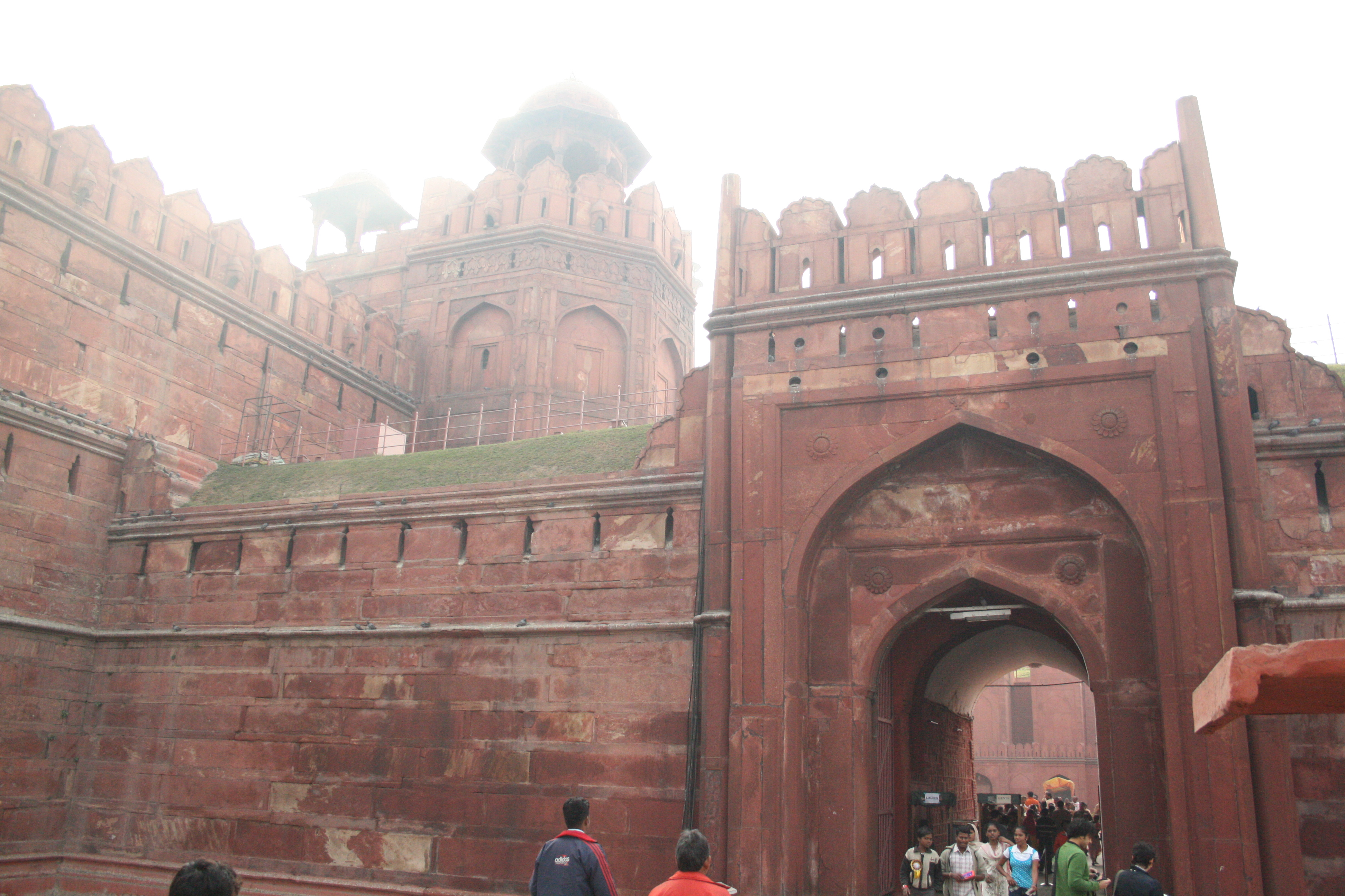 Red Fort, Delhi, India